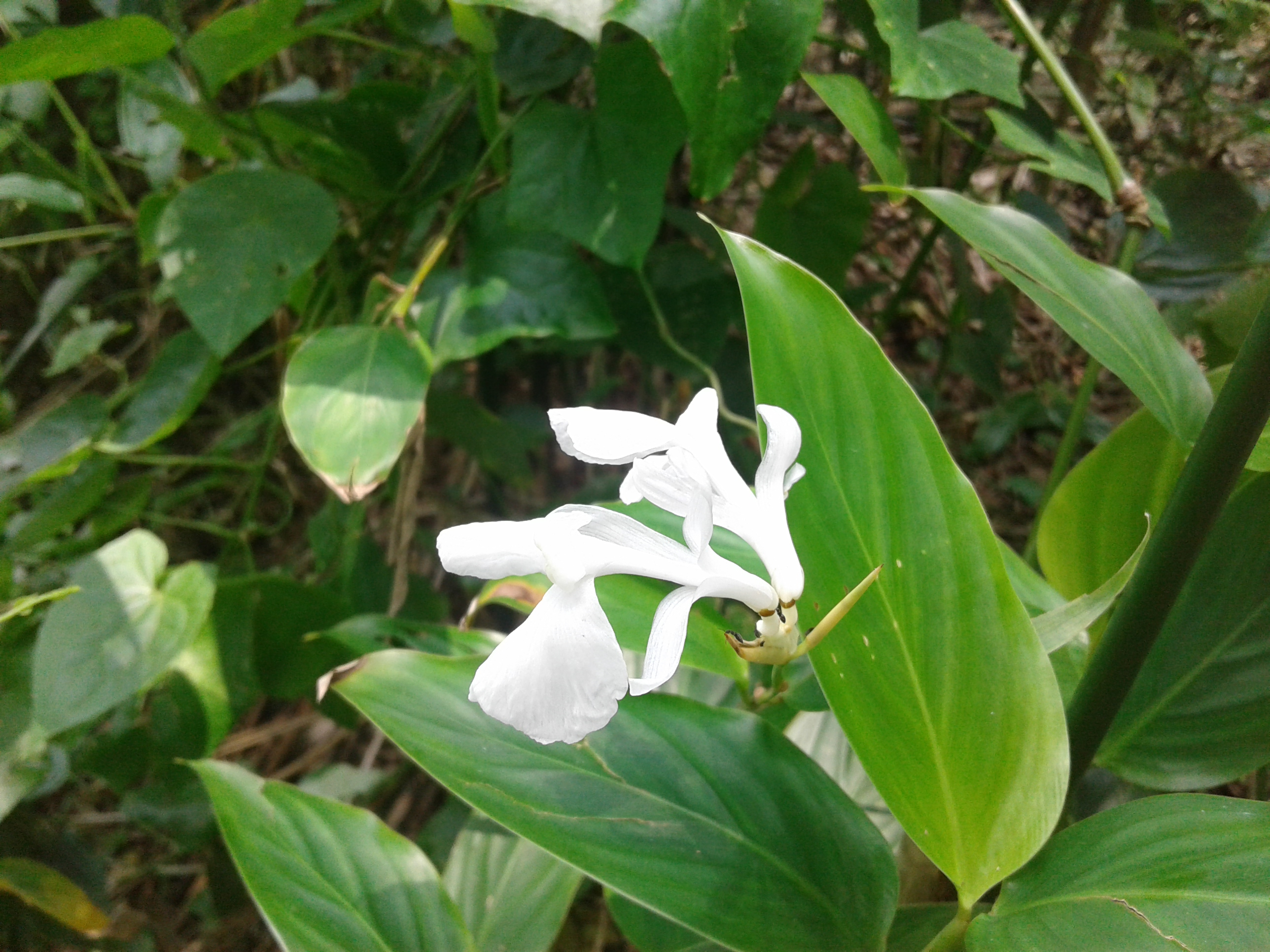 Photo showing the flower of Schumannianthus dichotomus, taken from the village of Jhowdogi, Lakshmipur Sadar, Bangladesh on 17 May, 2018.